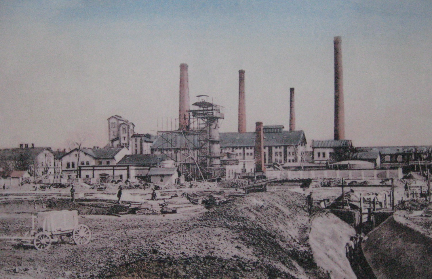 Sugar factory in Nagysurány /now: Šurany, Slovakia/ established in 1852. (Picture from 1900).